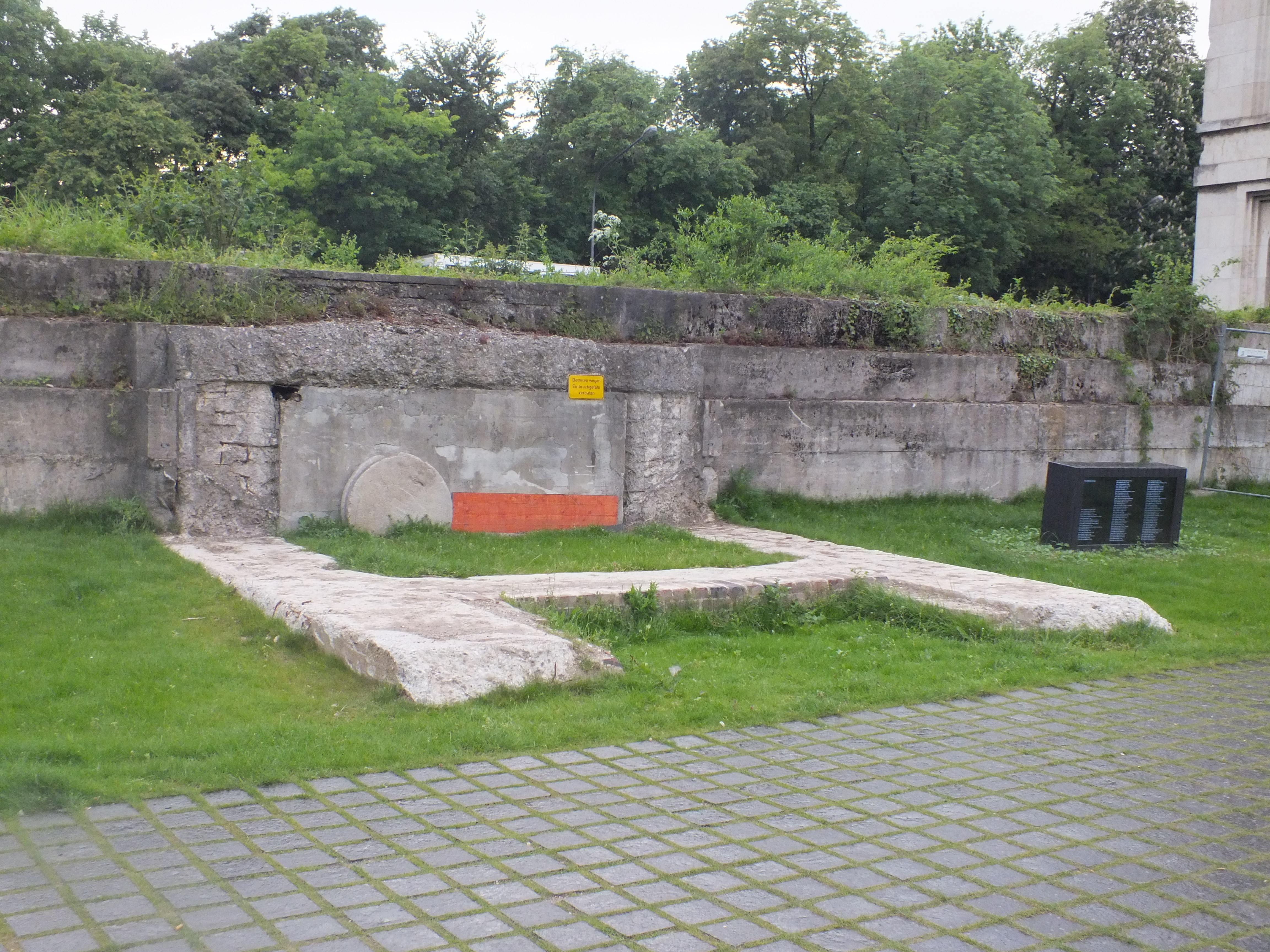 Munich Ludwigsvorstadt:NS-Dokumentationszentrum remaining fundaments of one of the "Ehrentempel"